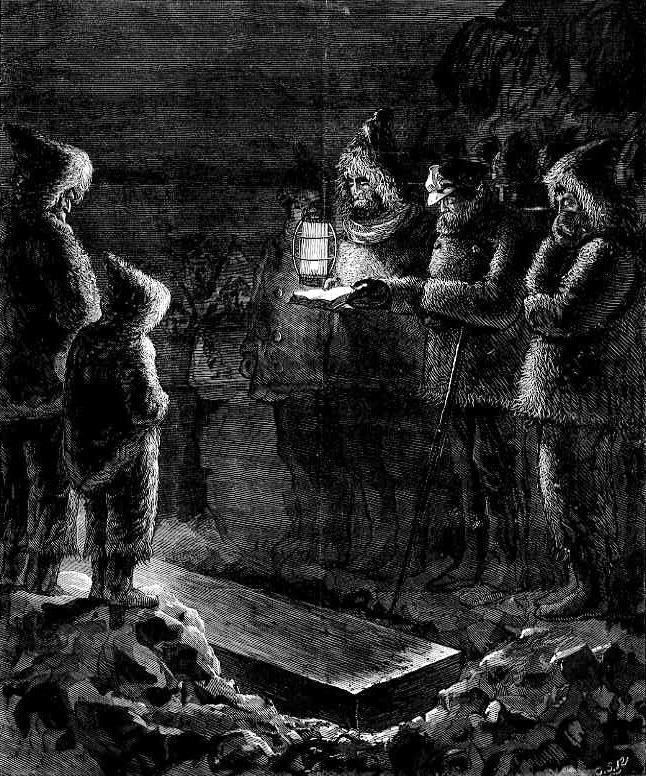 The Burial of Captain Hall, a wood engraving published in Harper's Weekly, May 1873, to illustrate the Arctic expedition of Charles Francis Hall.